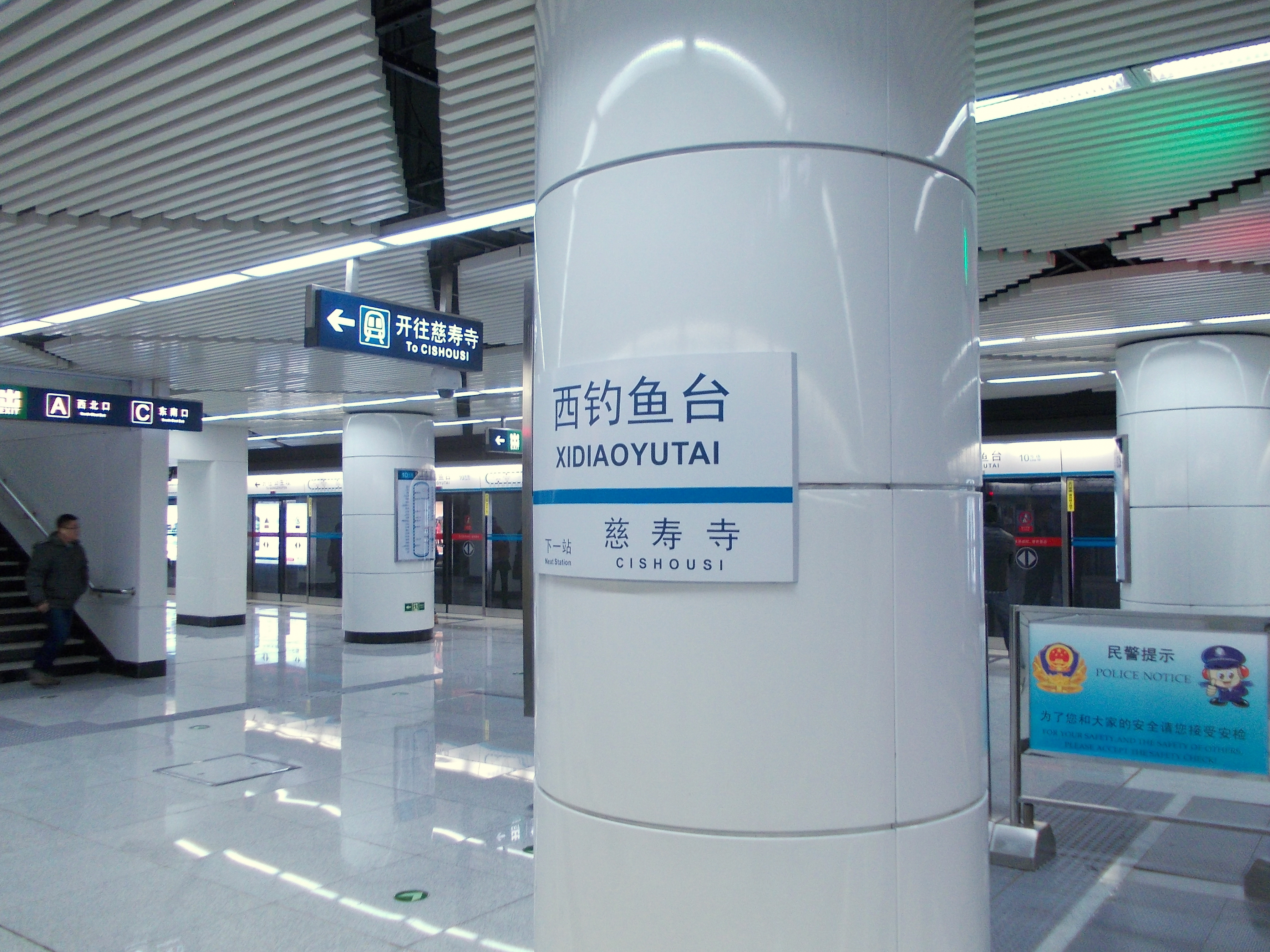 Beijing Subway - Line 10 - Xidiaoyutai Station